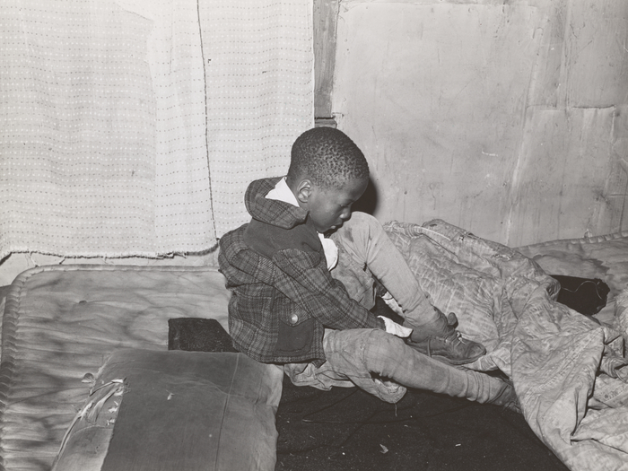 TMS ID: 58575 TMS Object Number: 038776-D Universal Unique Identifier (UUID): 8afbad40-741b-0137-f8cd-195232924fa8